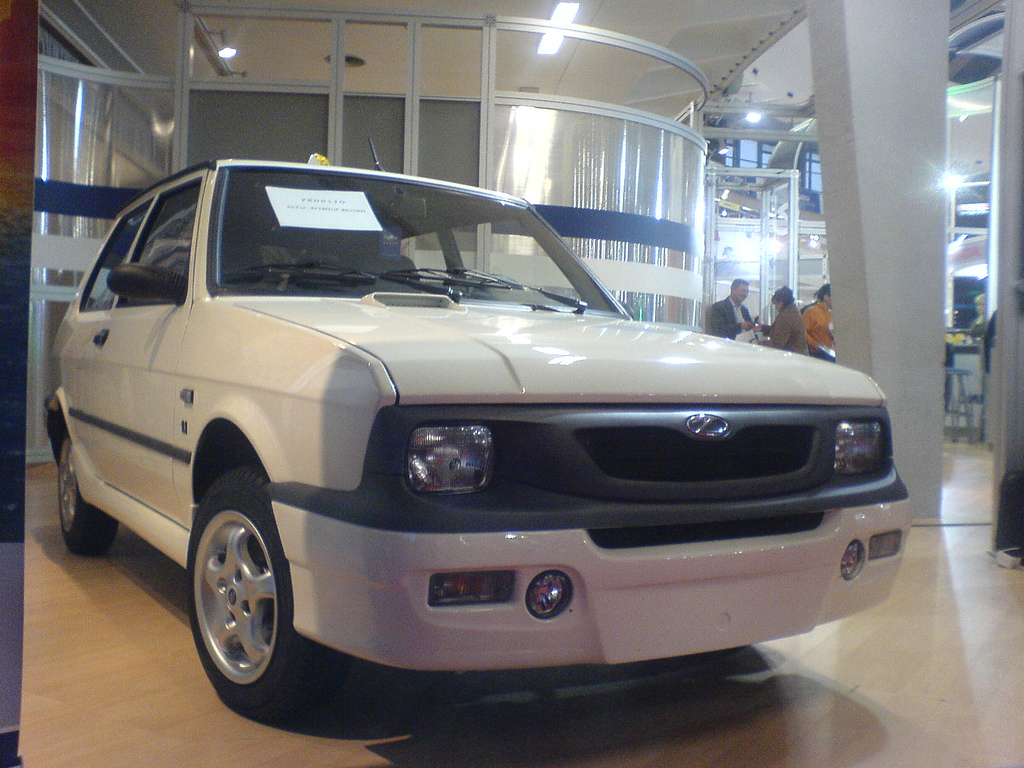 White Zastava Koral In the Belgrade Car Show.